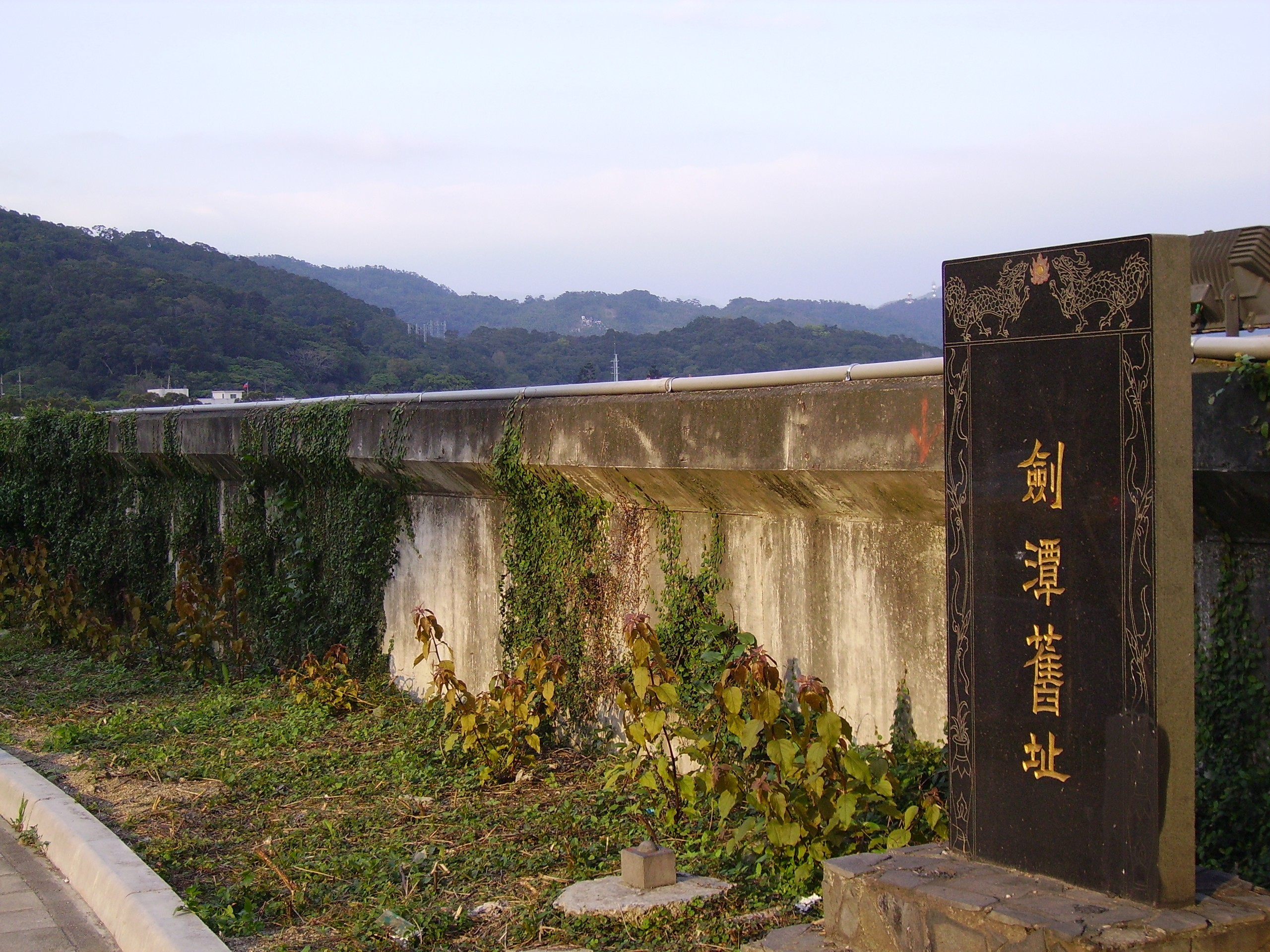 Ancient Chientan Tombstone.